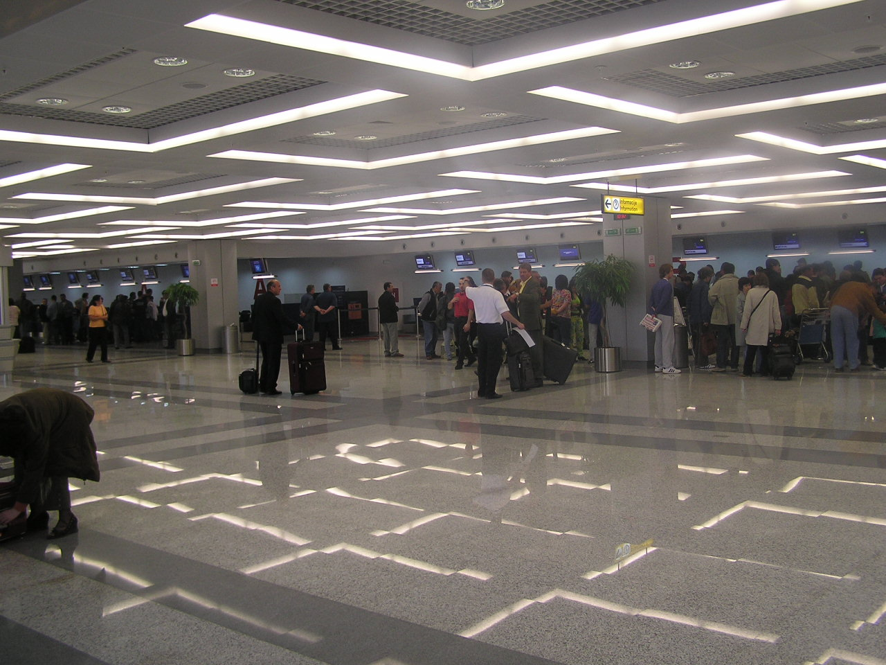 Interior of Terminal 2 of the Belgrade Airport